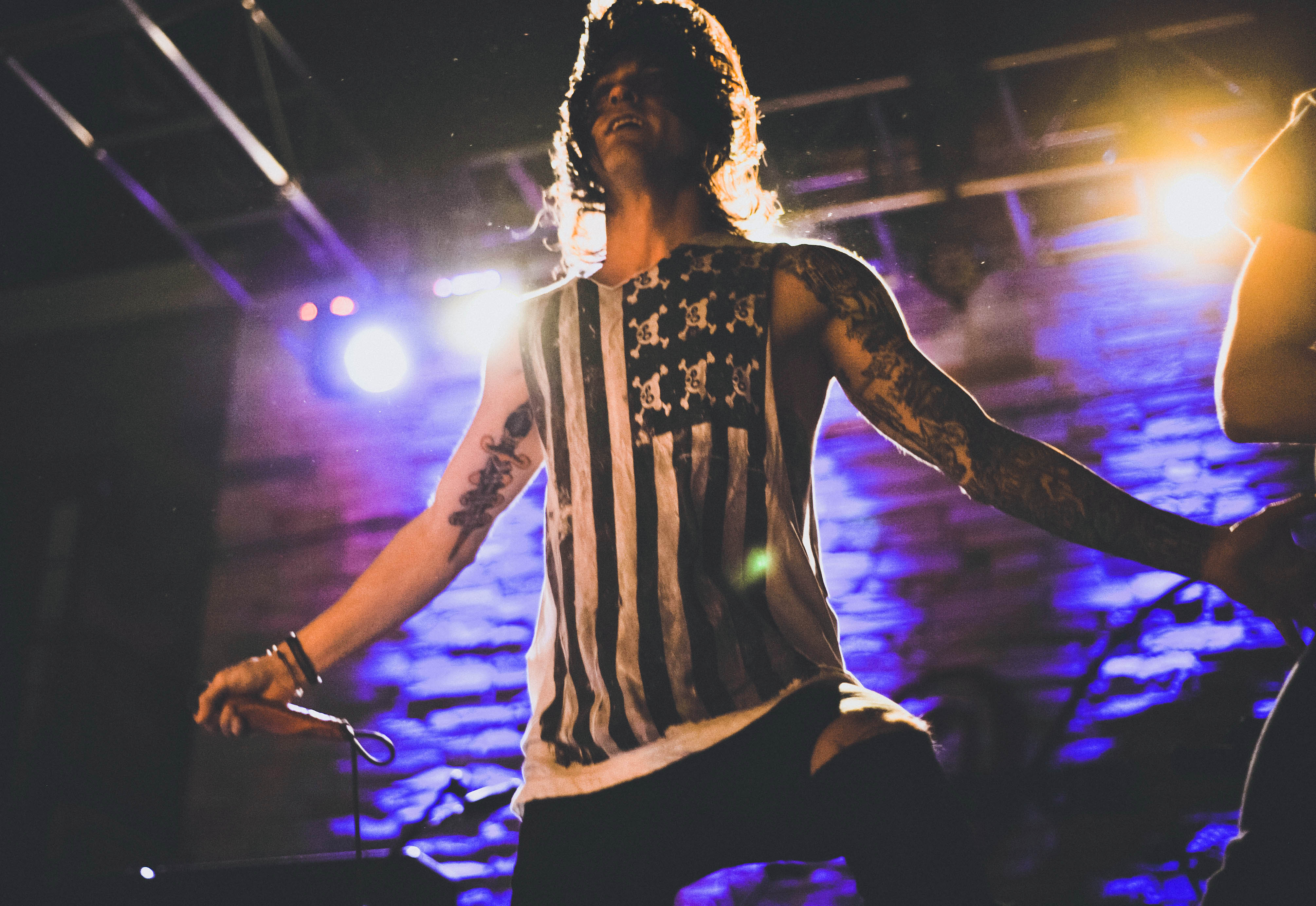 Fire & Ice Tour - Scottsdale, AZ